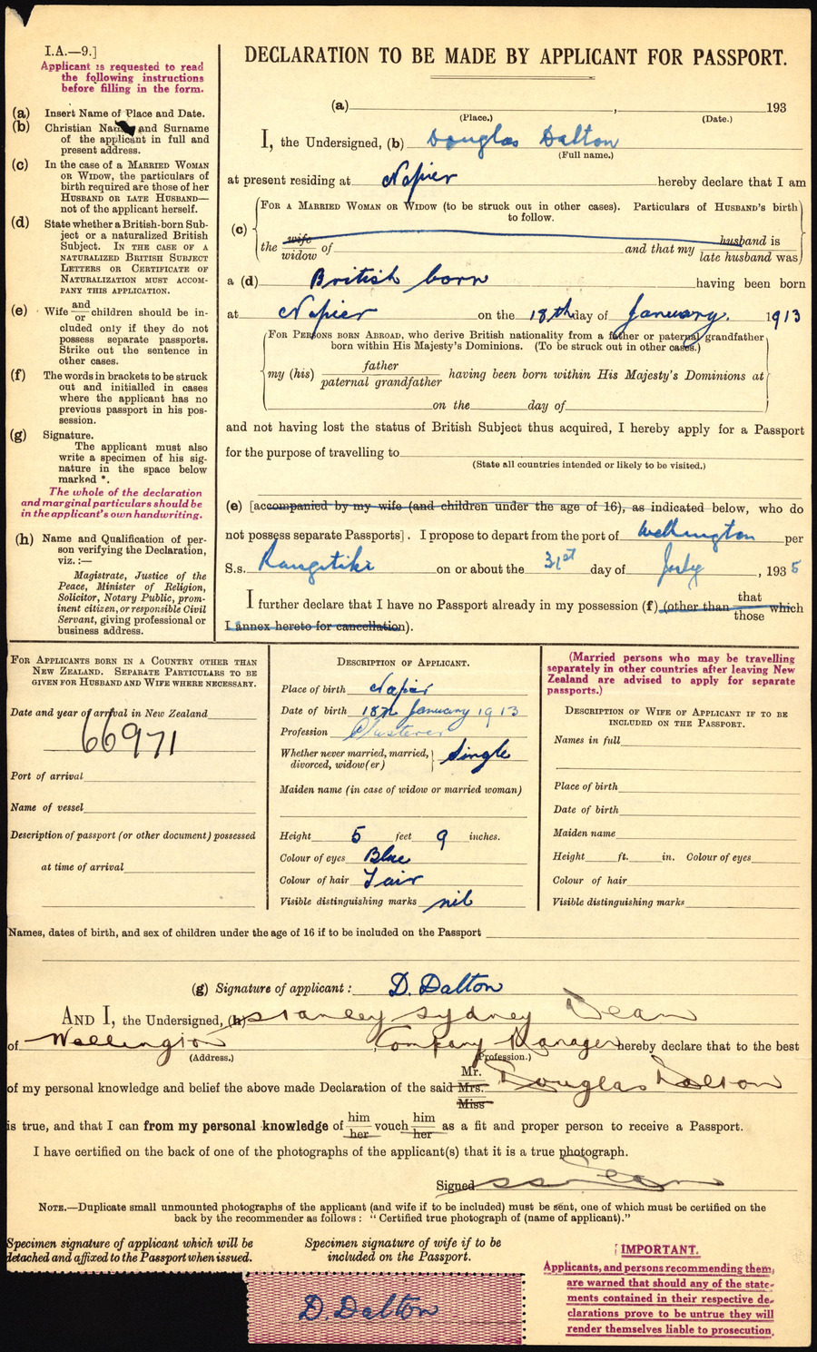 Archives New Zealand Reference: ACGO 8333 IA1 1350 / 15/11/59182